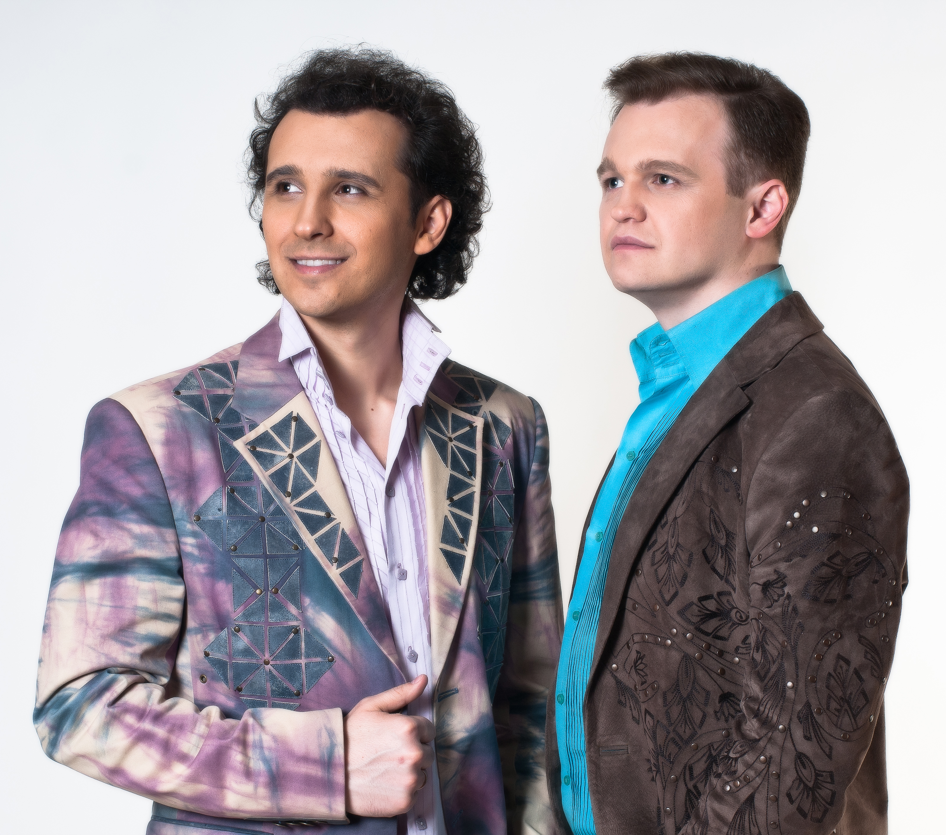 Yaremchuk Dmytro and Nazary